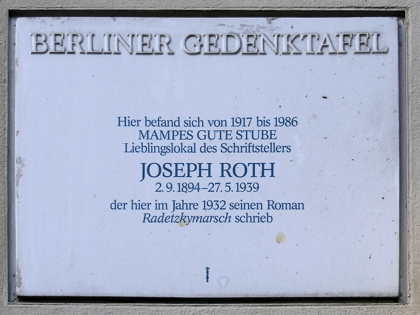 Berlin memorial plaque, Joseph Roth, Kurfürstendamm 14, Berlin-Charlottenburg, Germany Koordinate:52°30′16″N 13°19′58″E / 52.50444°N 13.33278°E